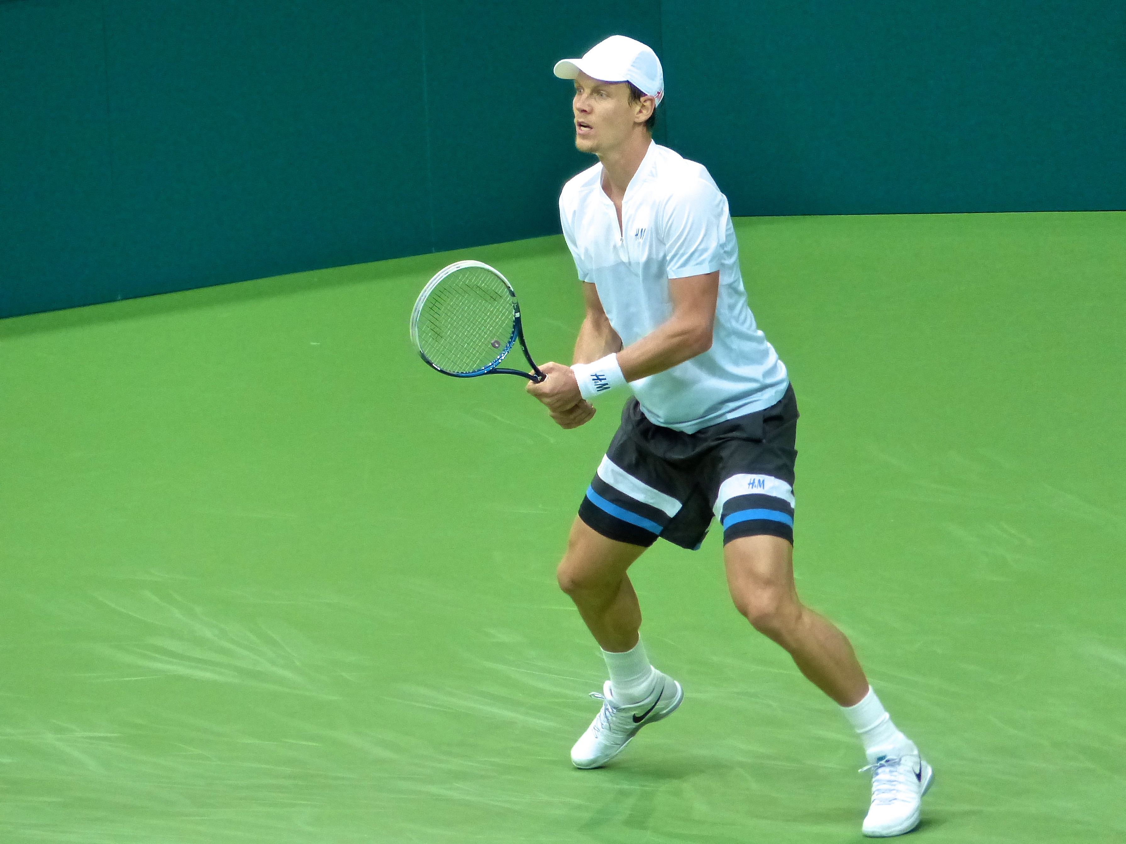 At the Rotterdam 2014 tennis tournament final against Marin Cilic.